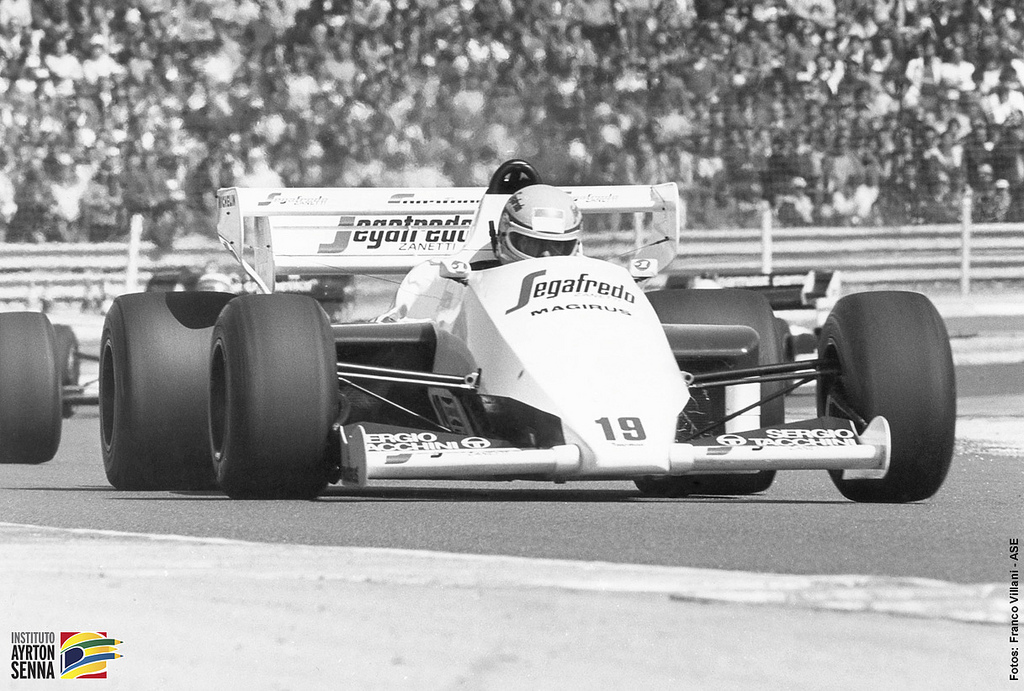 Ayrton Senna driving the Toleman TG 184.